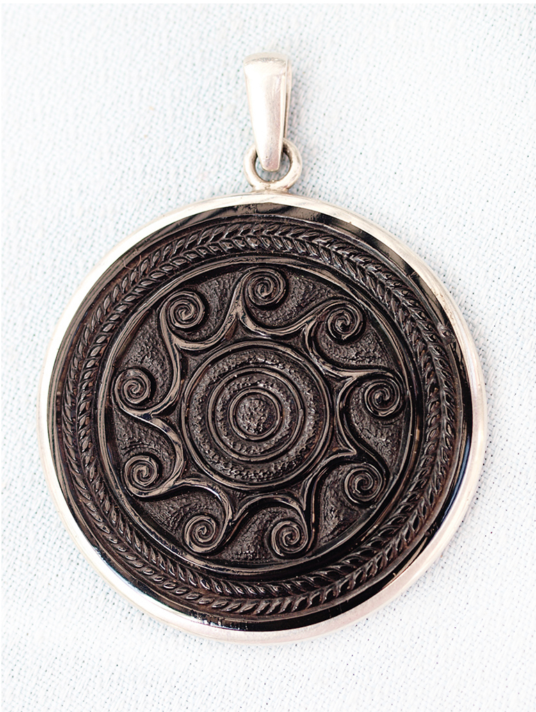 Jet, Gagat, Azazabache, Acebiche